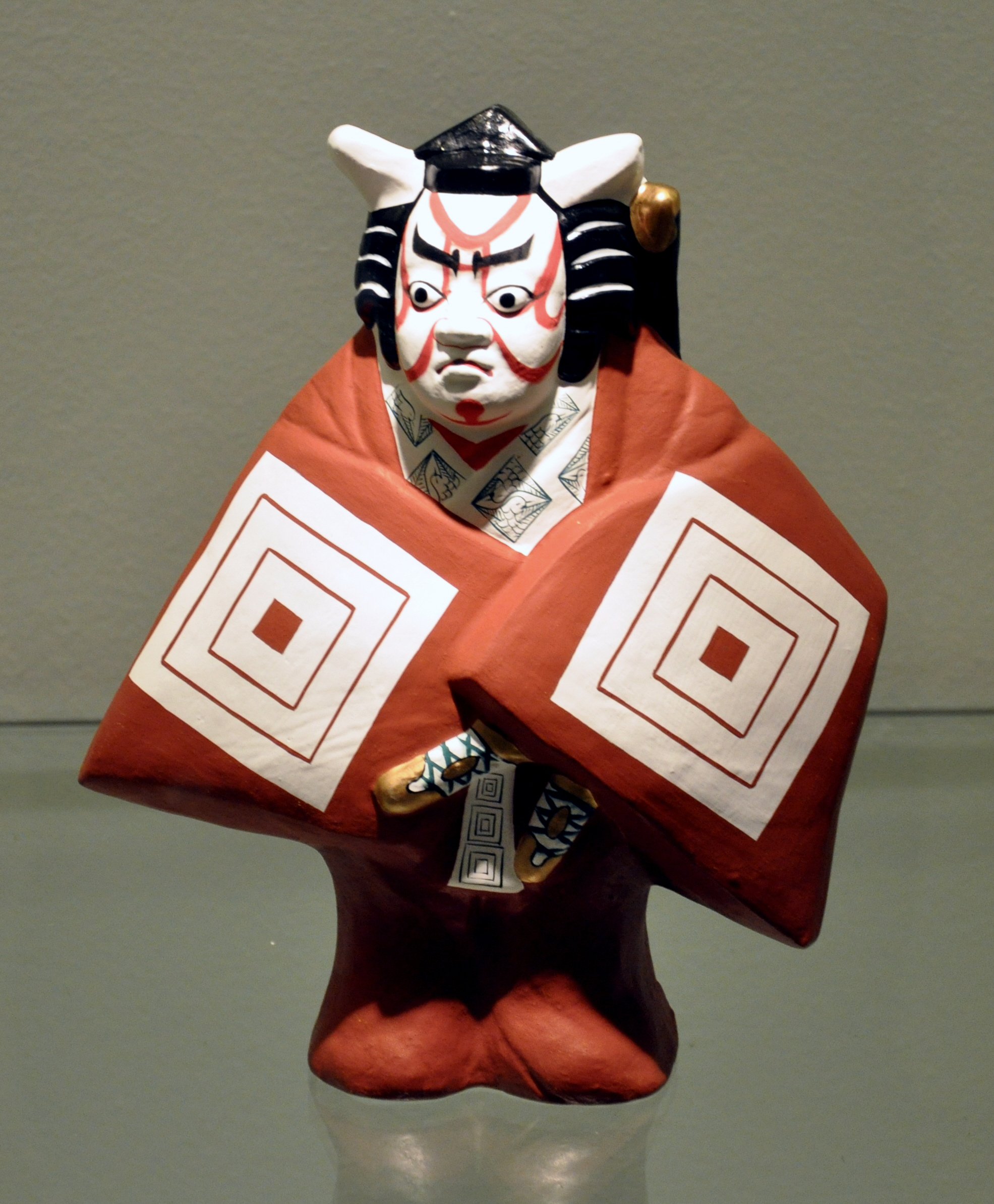 Fushimi clay doll; made by Tanka; Exhibition Waza - Traditional Crafts from Kyôto at Museum für Angewandte Kunst, Frankfurt am Main, Germany, 2011.